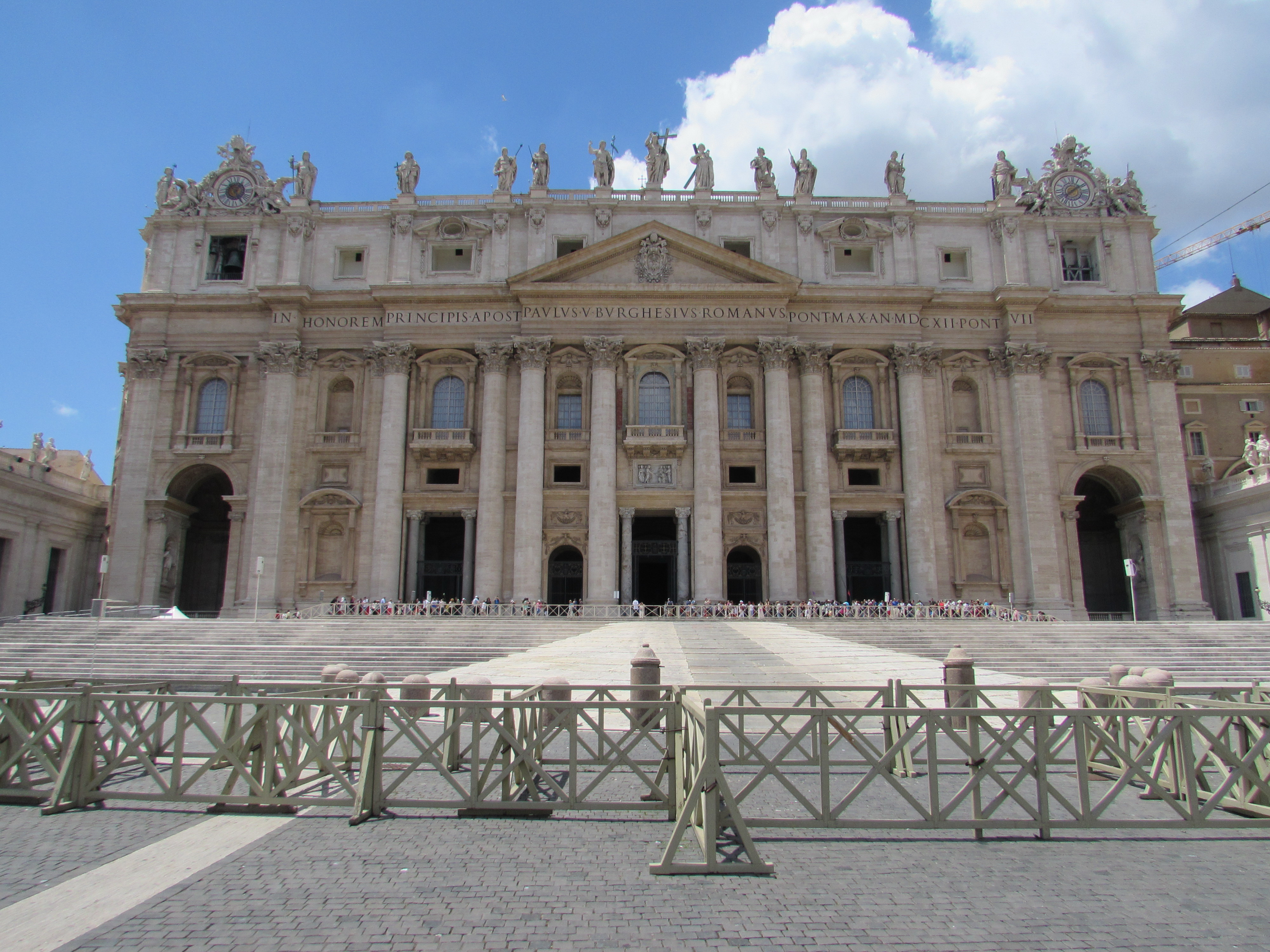 St. Peter's Basilica, Rome, Italy